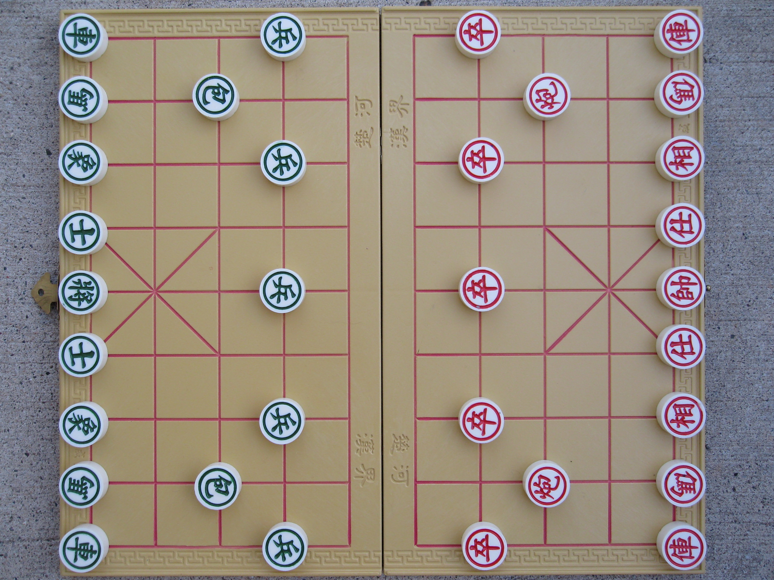 A Chinese chess table.